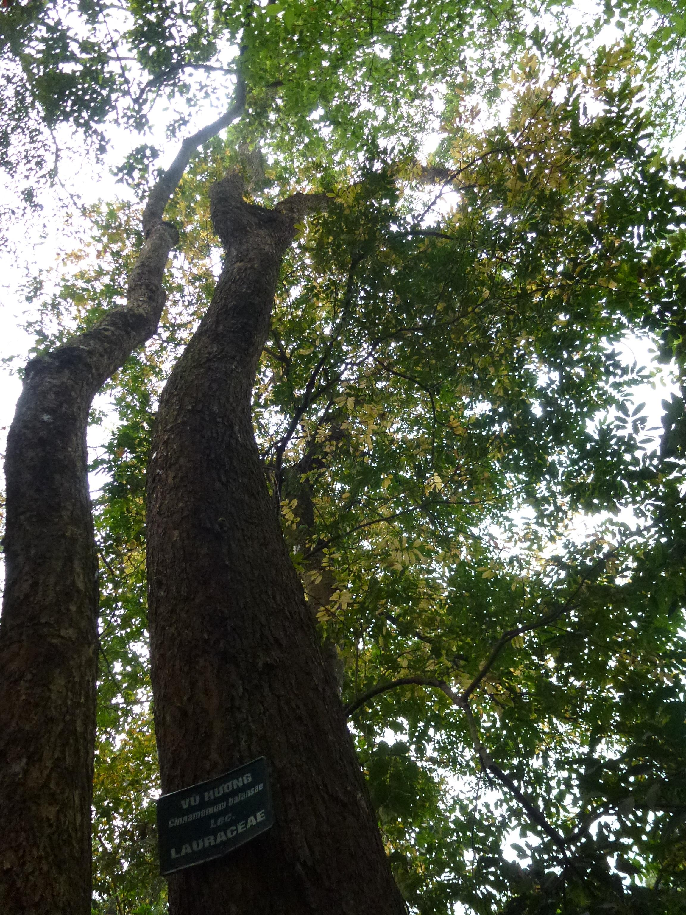 Cinnamomum balansae at Hùng temple, Vietnam